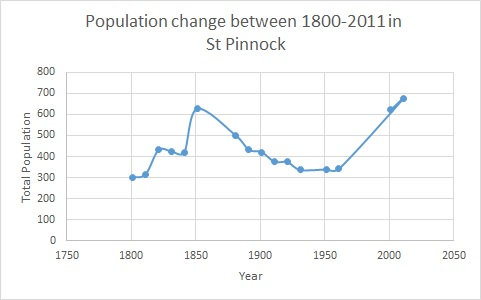 Total Population of St Pinnock as reported by the Census of Population from 1800-2011